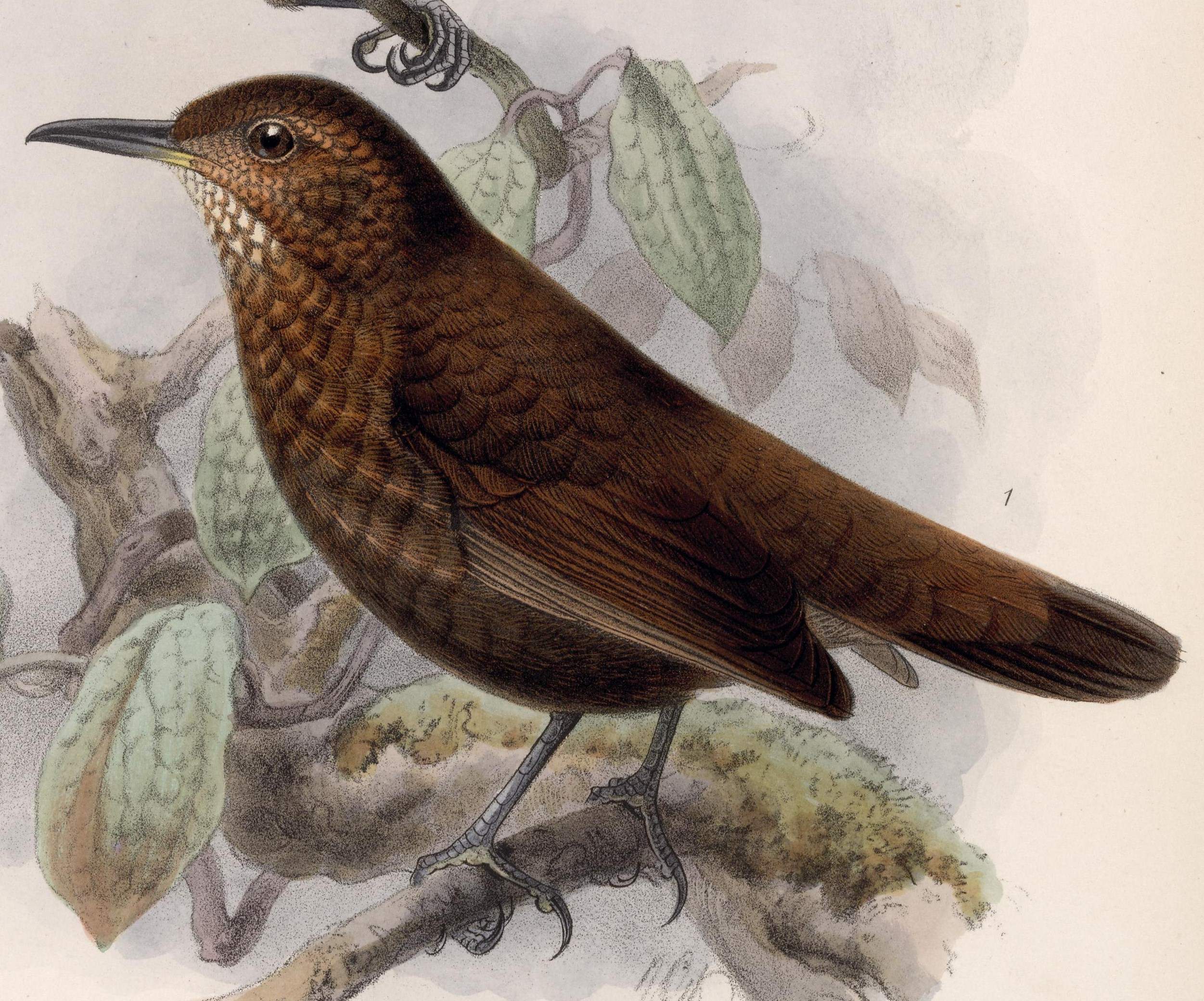 « Sclerurus guatemalensis » = Sclerurus guatemalensis (Scaly-throated Leaftosser)